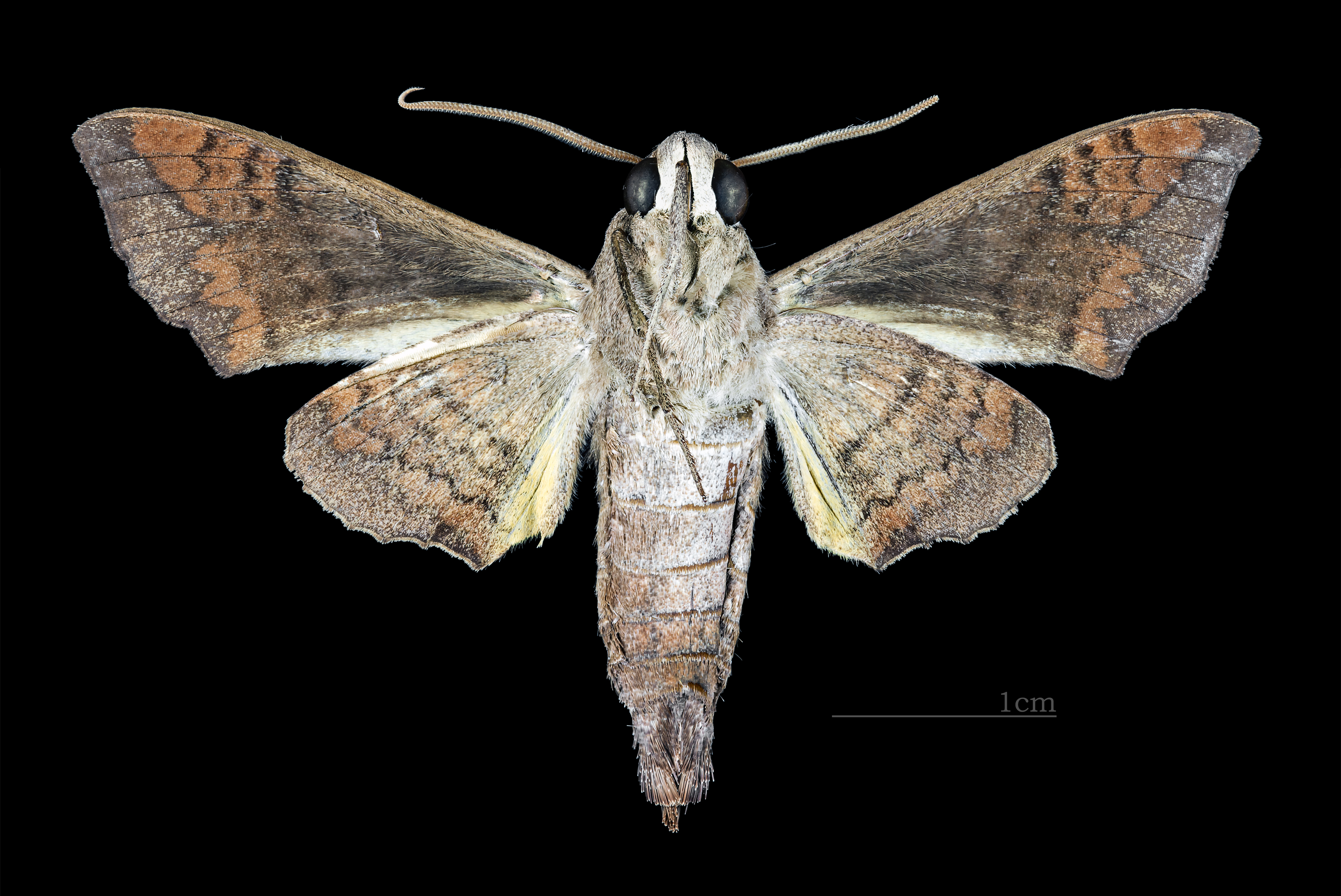 Perigonia ilus - △ Ventral side Collection of the Mathematician Laurent Schwartz